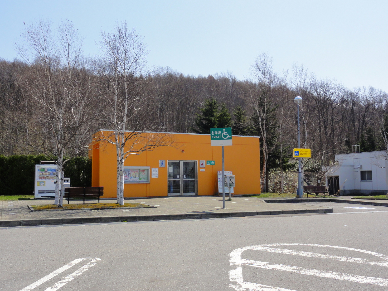 Hokkaidō Expressway Chashinai Parking Area for Sapporo